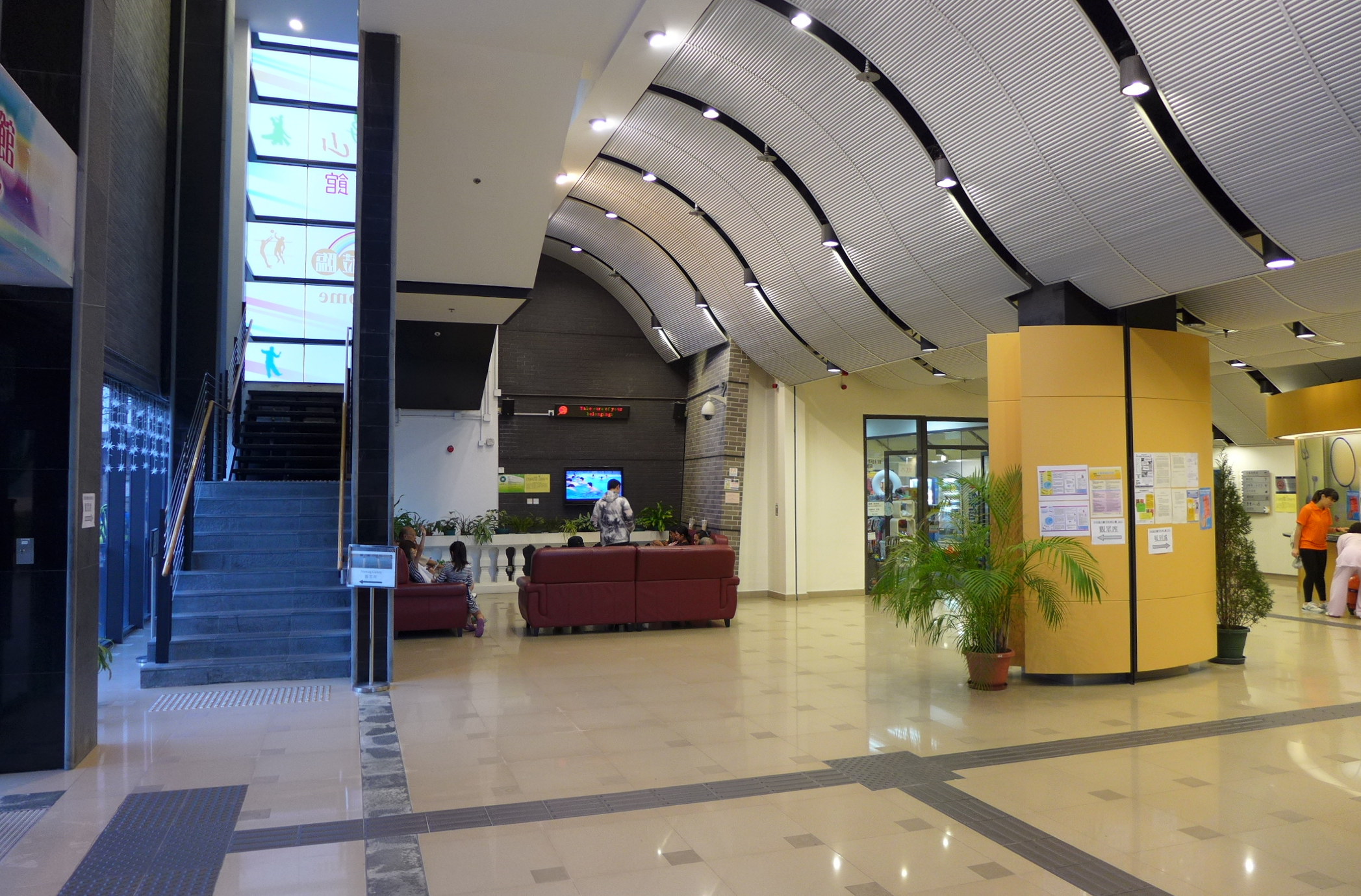 Ma On Shan Sports Centre Lobby